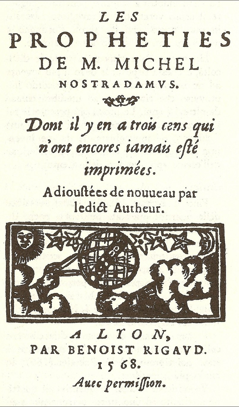 Title page of Les Prophéties of Nostradamus (Lyon, 1568).